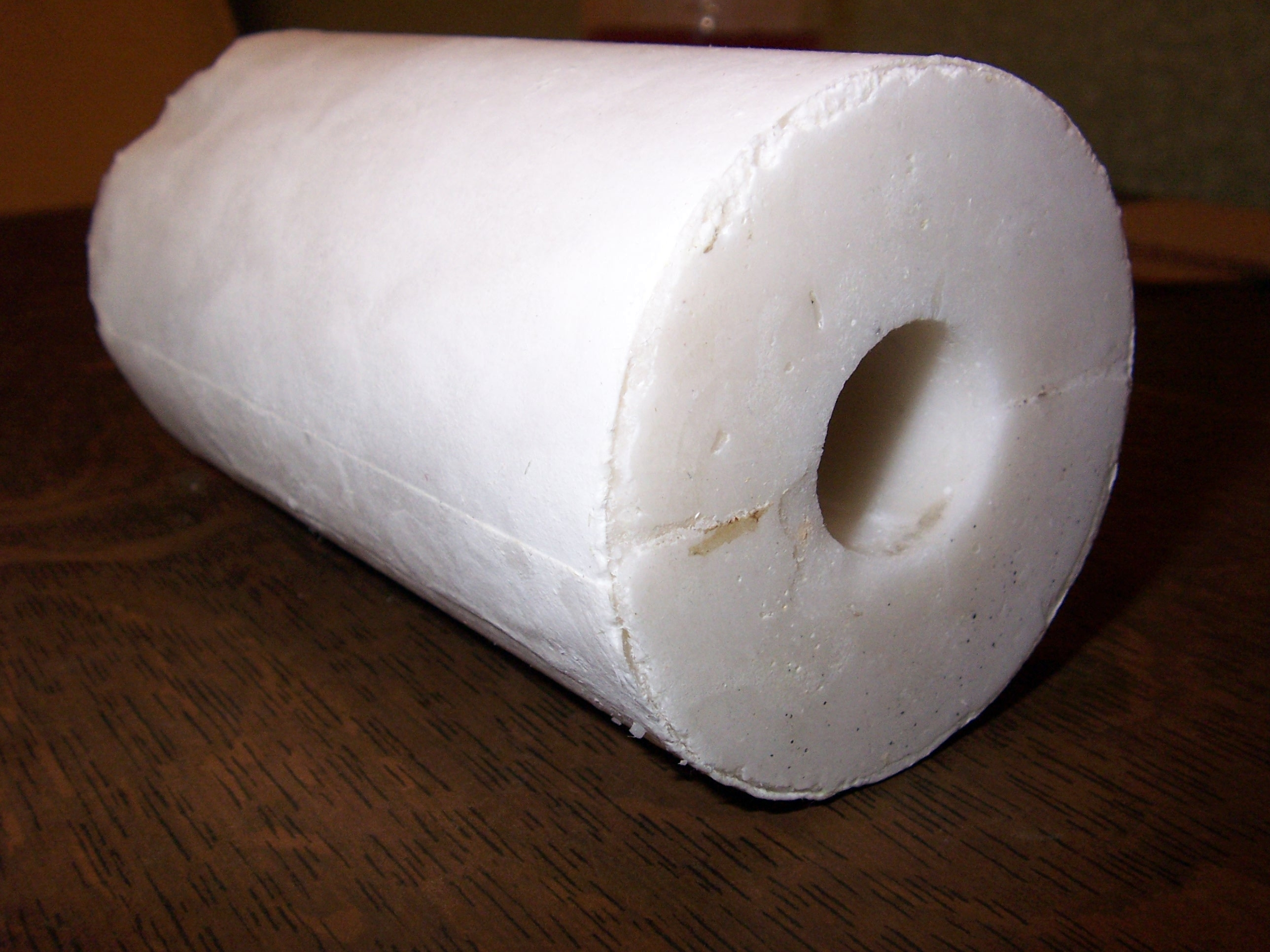 Most commonly used rocket candy fuel, ready-to-burn grain has cylindrical shape with the channel in the center.